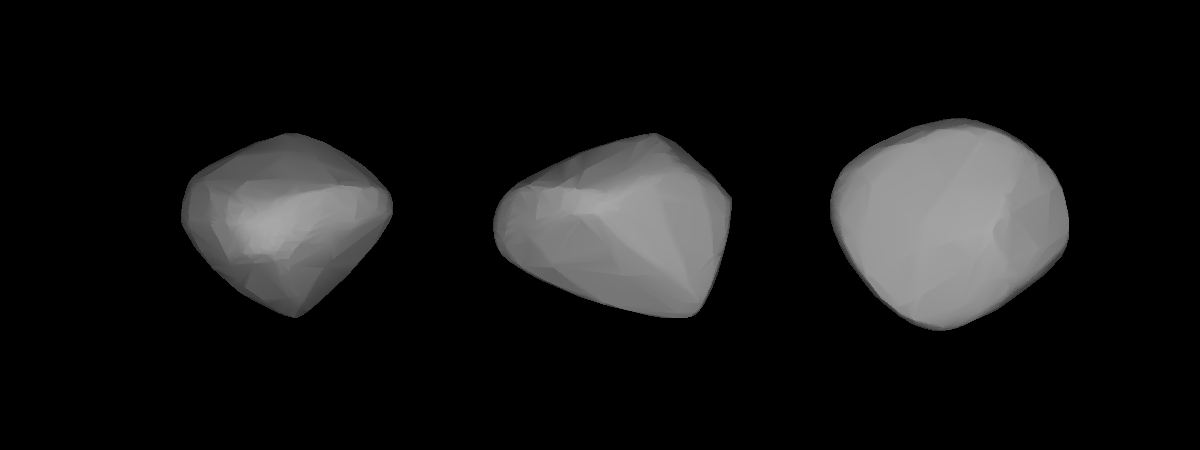 A three-dimensional model of 25 Phocaea that was computed using light curve inversion techniques.